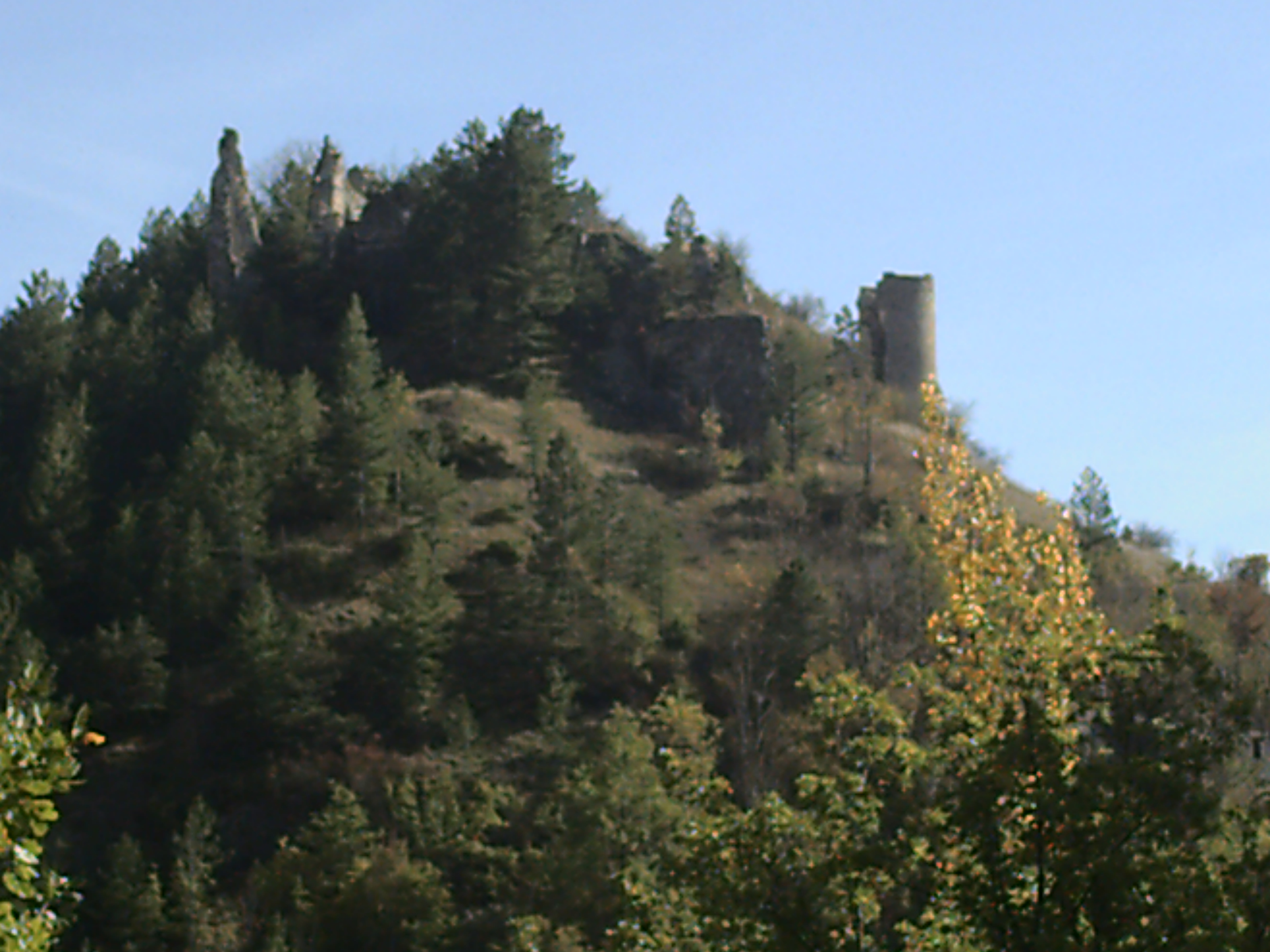 Ruins of the Aix en Dioiscastle, Drôme, France